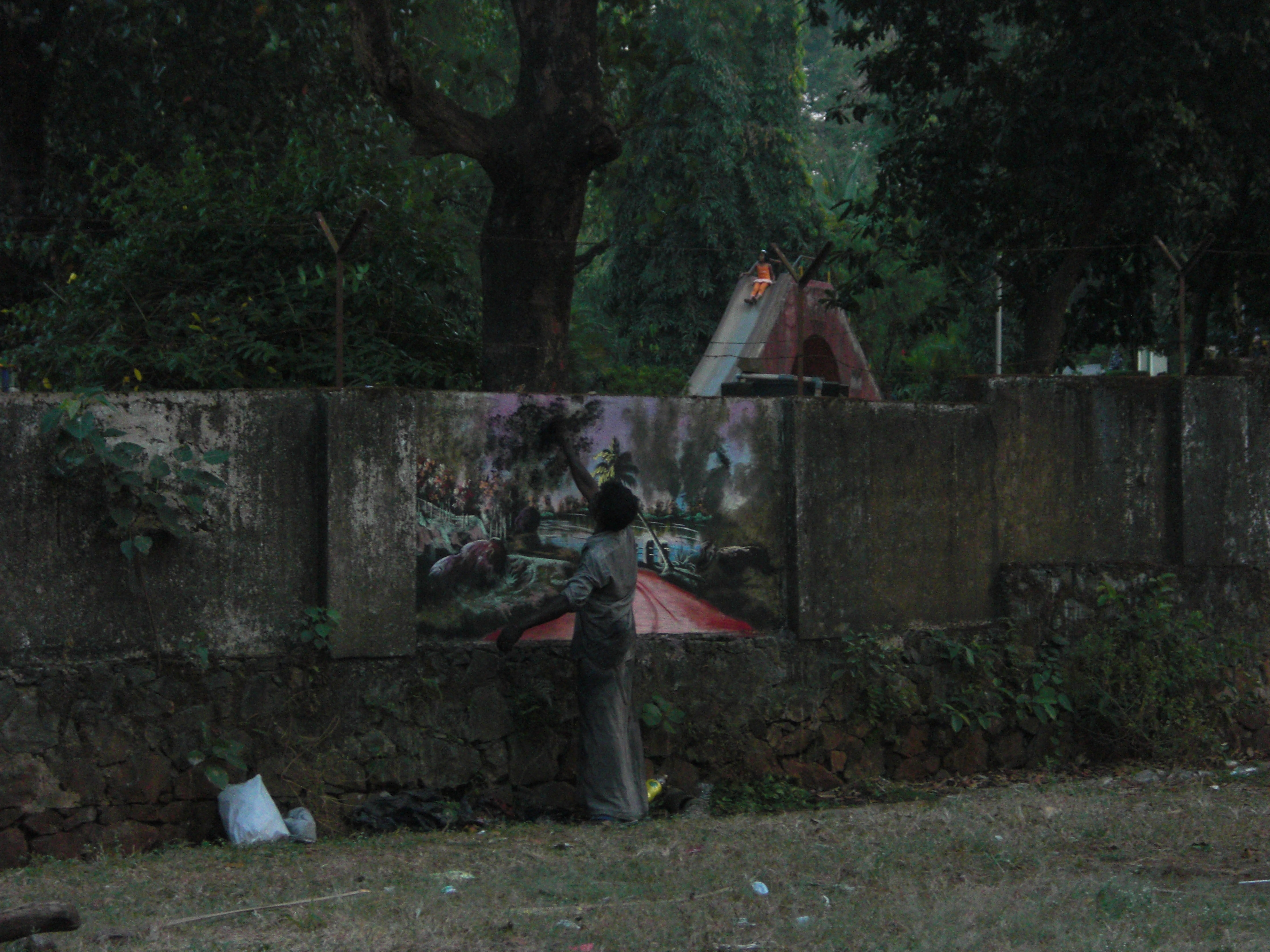 A street dweller creating a graffitty. His graffity depicts a scenic landscape of a typical Kerala Village on the compound wall of city's ( Thrissur) leisure park.